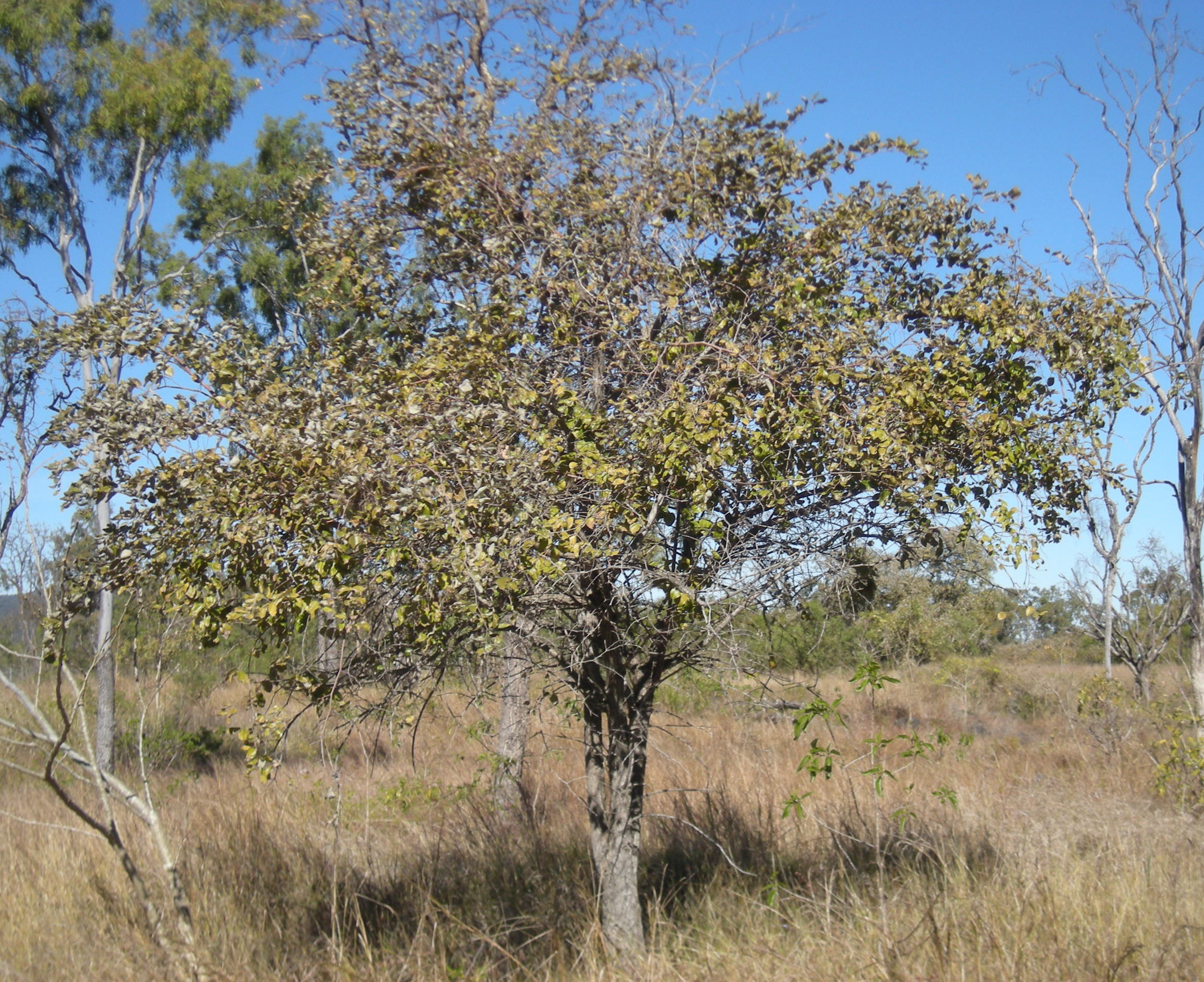 Ziziphus sp. tree, Mount Archer National Park, Rockhampton, Australia